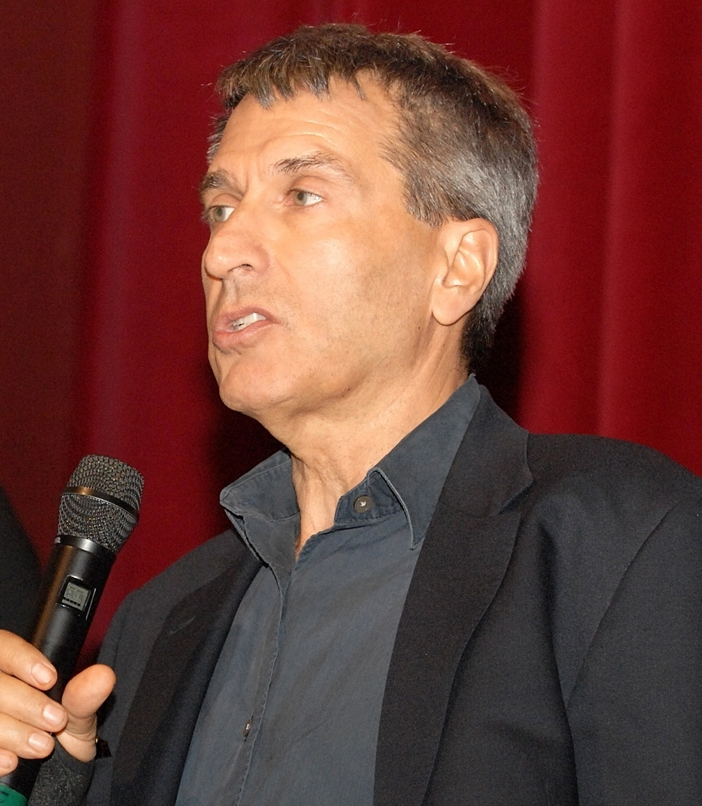 Nicholas Meyer, director of "Star Trek VI: The Undiscovered Country," answers questions from audience members before the showing of the film, part of the Air Force Film Festival, Los Angeles, at the Academy of Television Arts and Sciences, Nov. 14.